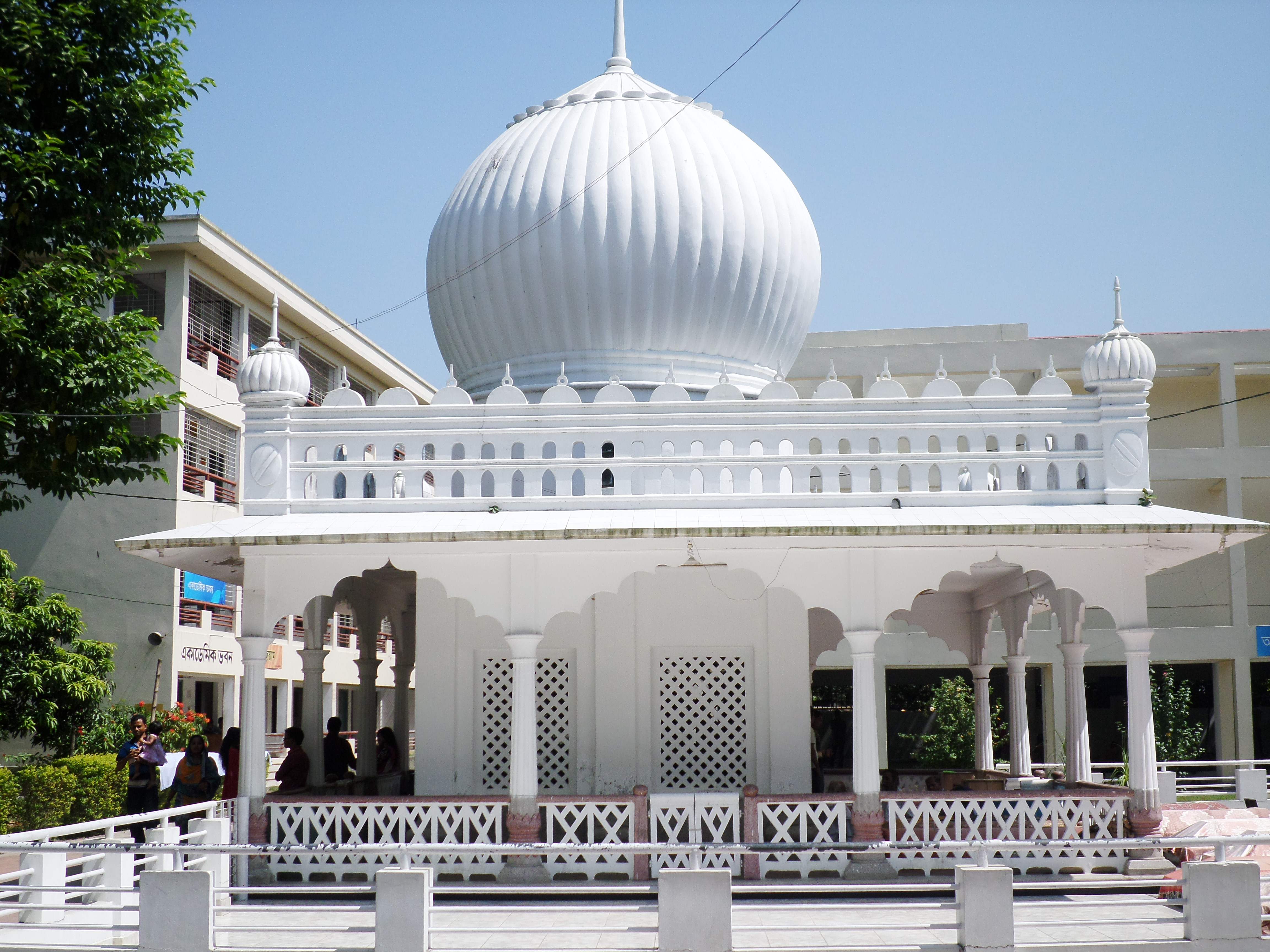 Fakir lalon saha mazar